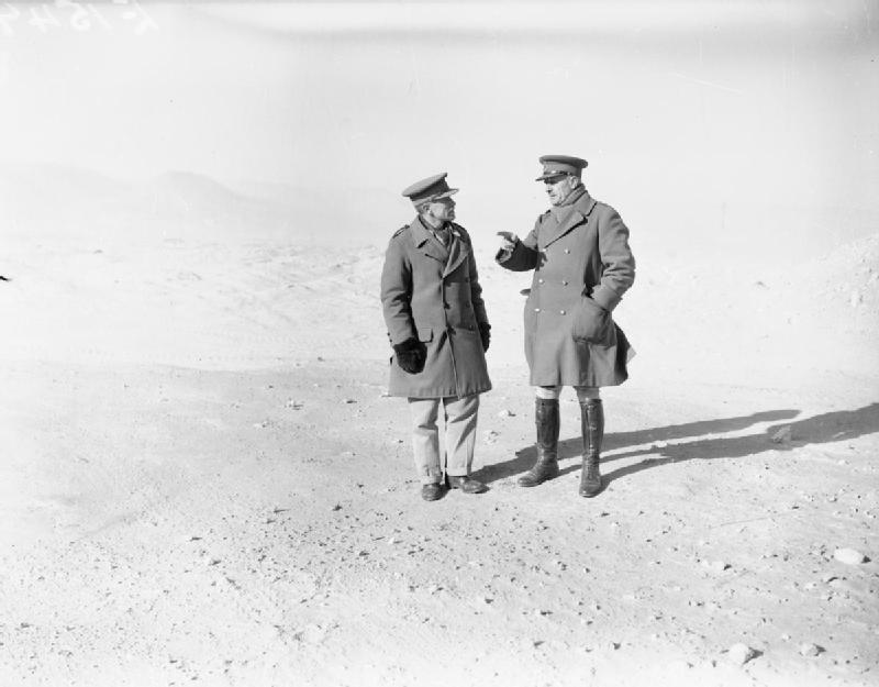 British Generals 1939-1945 Field Marshal, Earl Wavell of Cyrenaica and Winchester (1883 - 1950): General Sir Archibald Wavell, Commander in Chief, Middle East, with Lieutenant General Richard O'Connor, Commander Western Desert Forces, during the assault on Bardia.